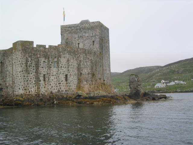 Caisteil Chiosmuil (Kisimul Castle) The castle in the bay at Castlebay (Bàgh a' Chaisteil). The seat of the Macneils of Barra.